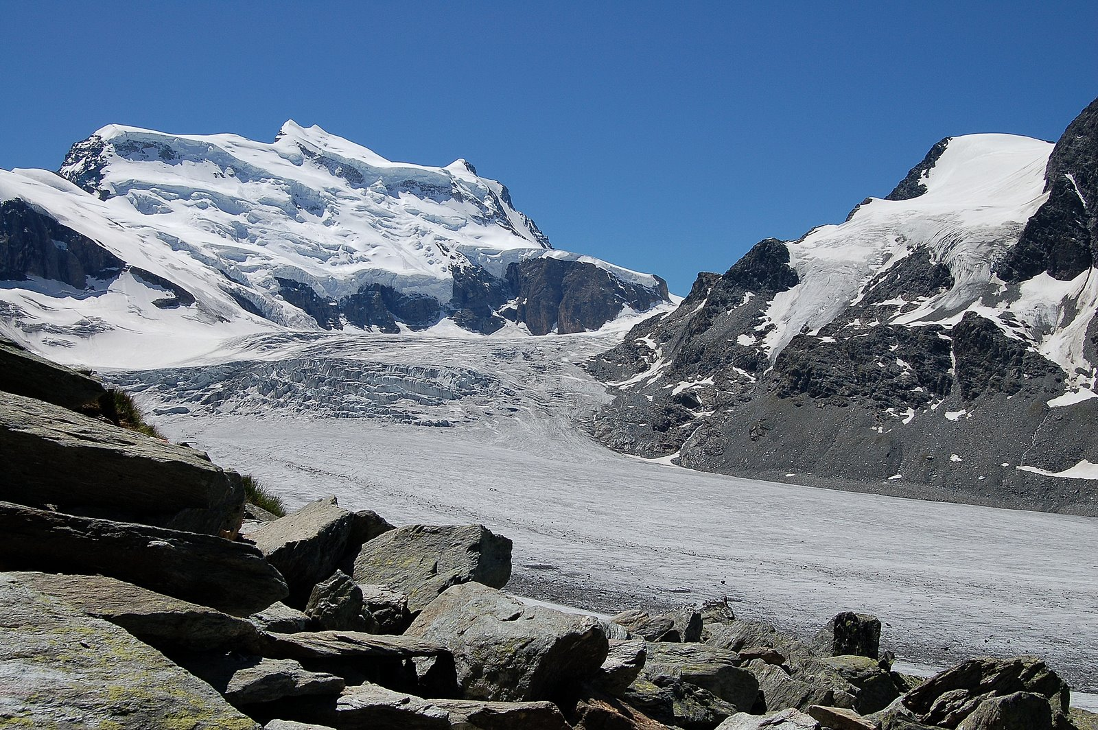 The Grand Combin and Corbassière glacier, Pennine Alps